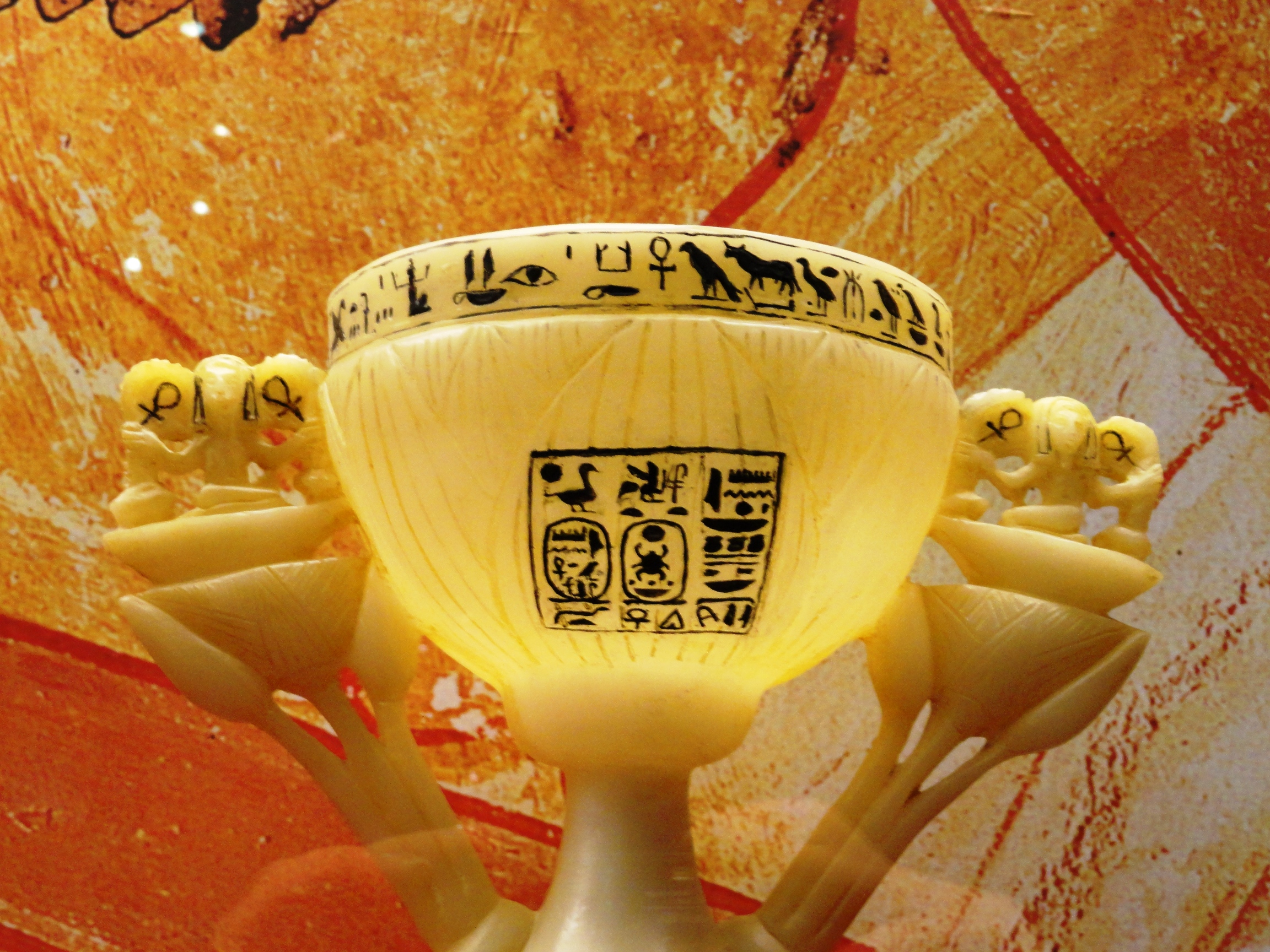 Drinking Cup in the shape of a Lotus (replica), Exhibition Frankfurt/Main 2012